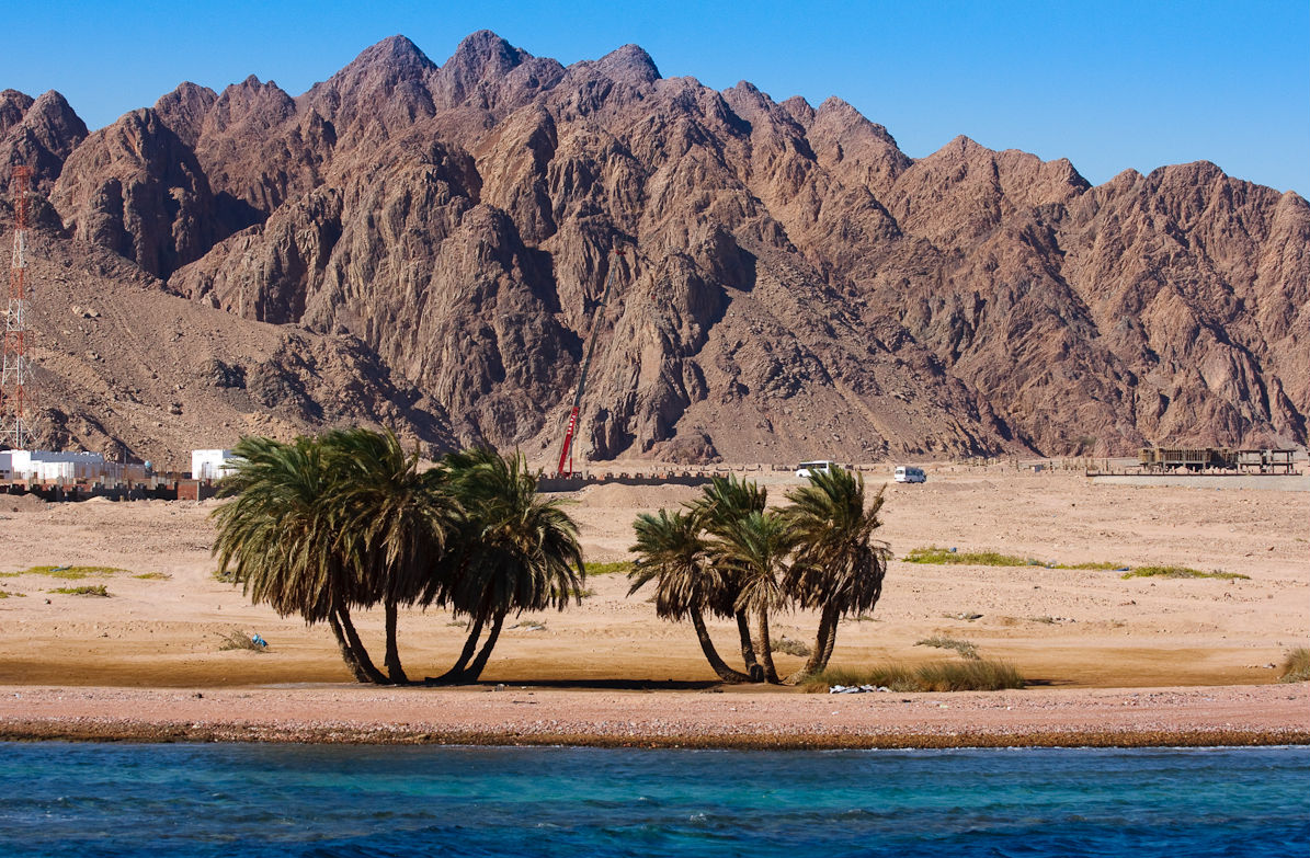 Dahab, Egypt